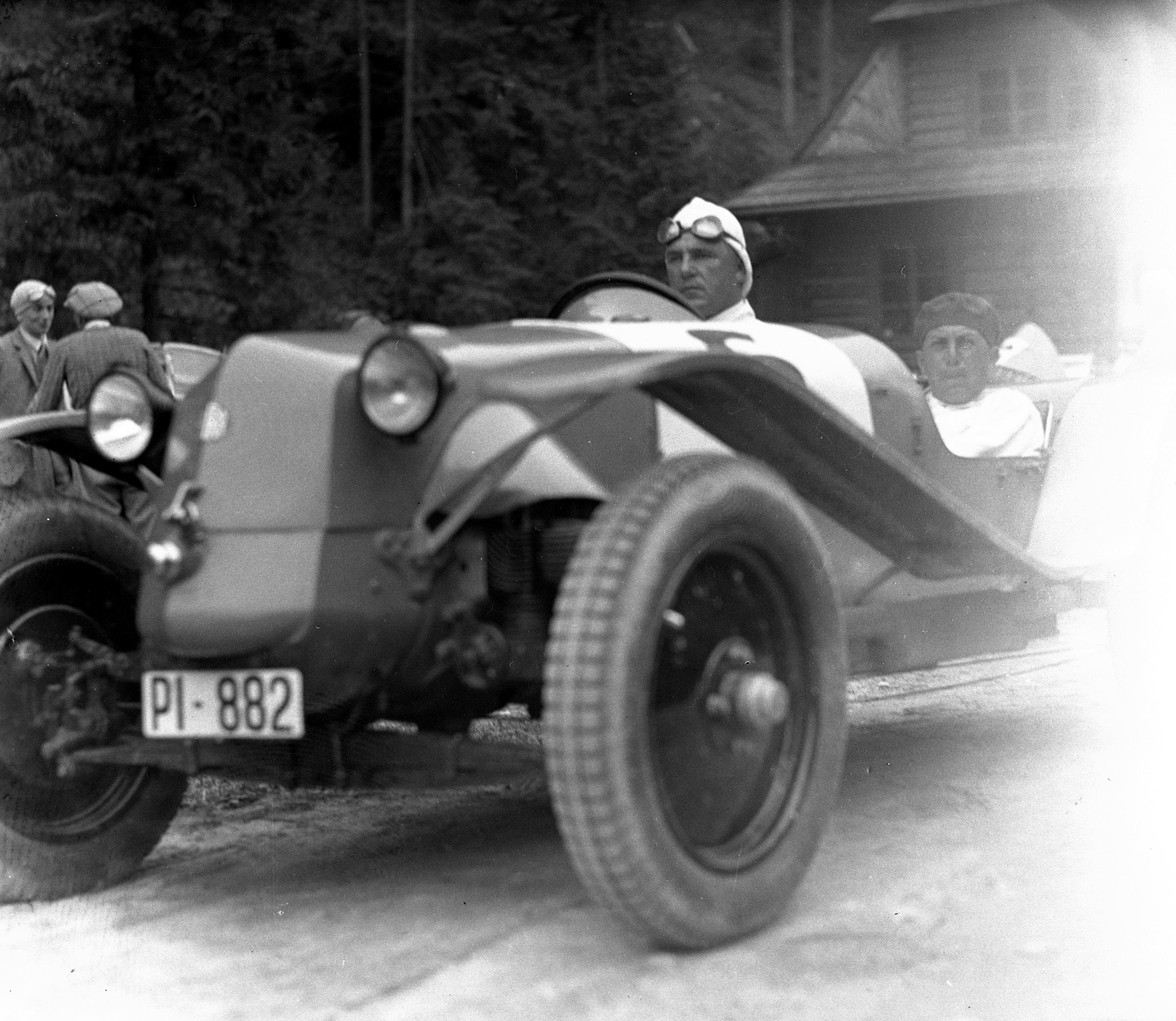 2nd International Tatra Rally, Poland, August 1929. Josef Vermirowsky in Tatra car.